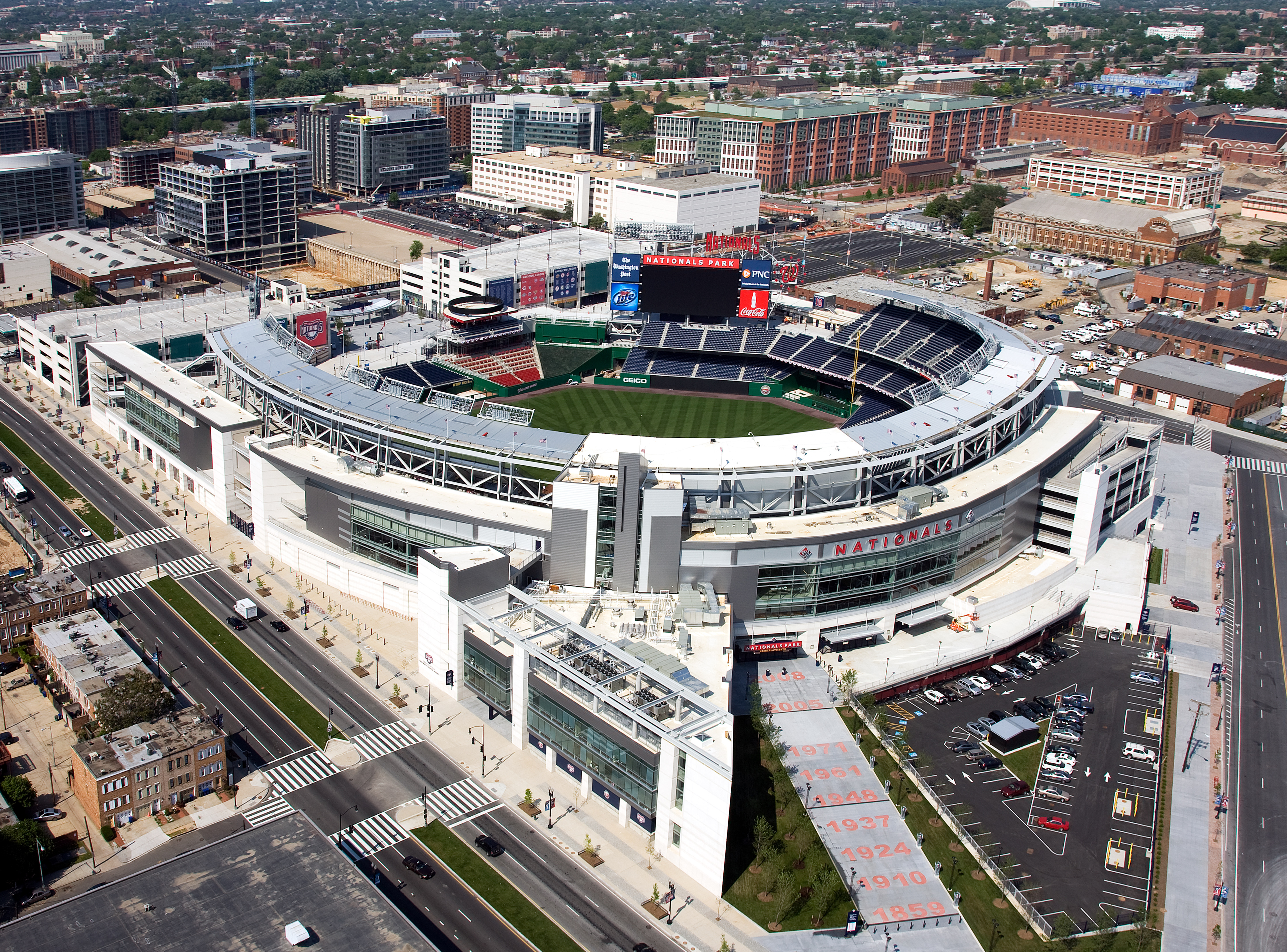 Aerial view of Nationals Park and the surrounding Navy Yard neighborhood in Washington, D.C.